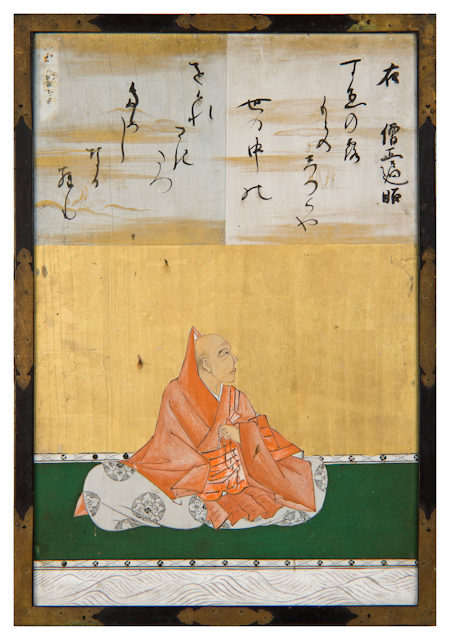 Sanjūrokkasen-gaku (Thirty-six Poetry Immortals framed picture) #8: Sōjō Henjō